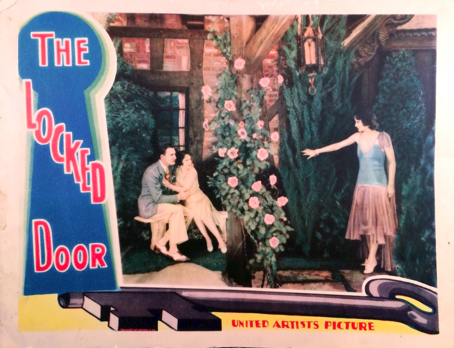 Lobby card from the American drama film The Locked Door (1929). There are no copyright marks on the card. At bottom (written on key) is Country of origin USA.